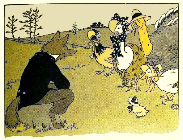 An illustration from the story "Chicken Little" in the New Barnes Reader vol.1, New York, 1916.